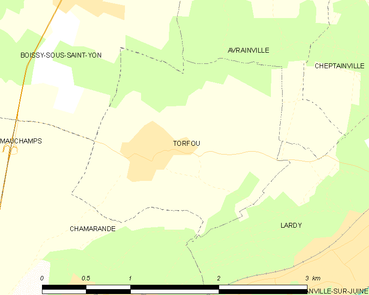 Map of French municipality Torfou